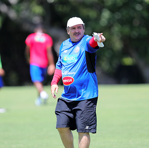 Óscar Ramírez training the Costa Rica National football team.